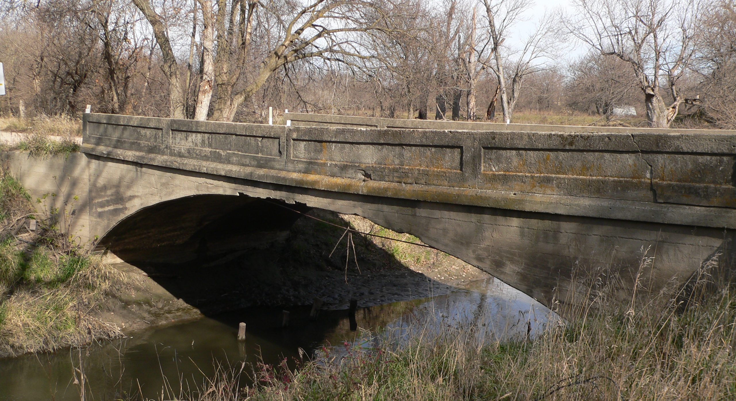 Historic bridge in Fillmore County, Nebraska, seen from southwest (upstream). The bridge is located where County Road 6 crosses the West Fork of the Big Blue River. The concrete spandrel arch bridge was designed by county engineer William A. Biba and built by contractor Frank N. Craven in 1918. It is listed in the National Register of Historic Places.